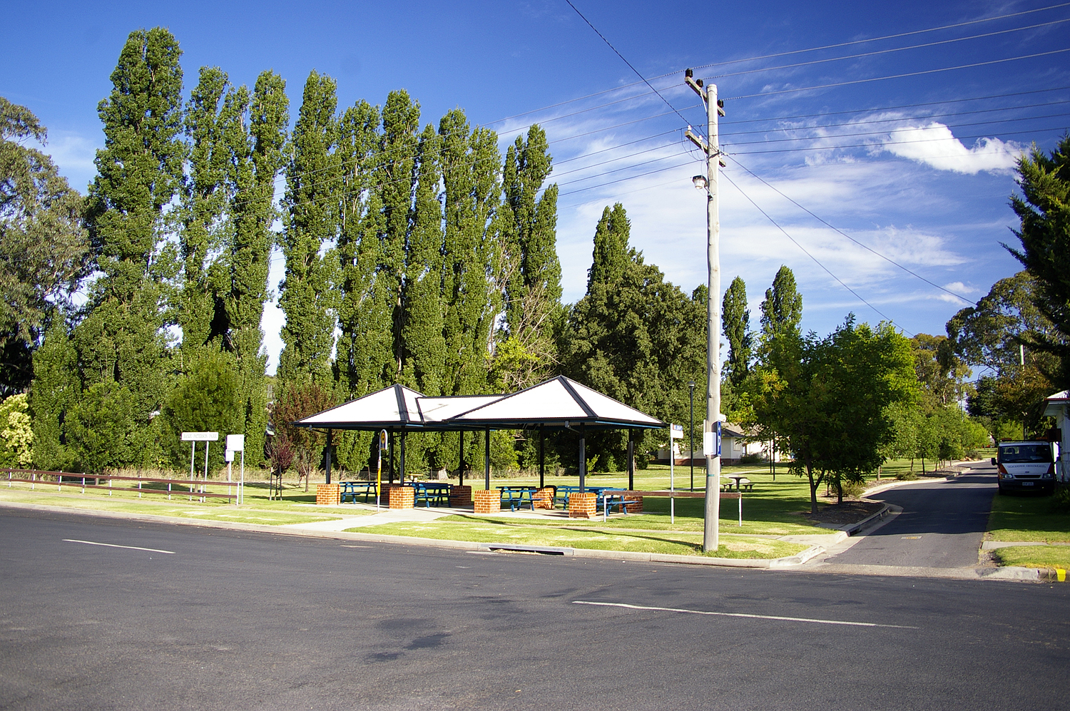 Banjo Paterson Park in Yass, New South Wales